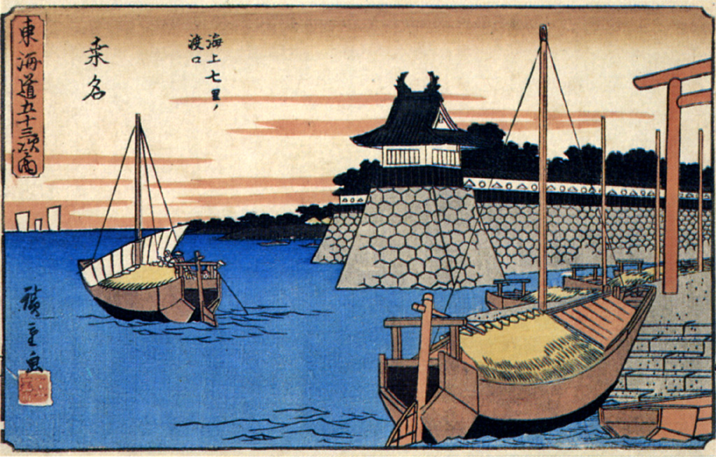 Entrance to the Shichiri Marine Ferry at Kuwana (Kuwana, kaijô Shichiri no watashiguchi), from the series The Fifty-three Stations of the Tôkaidô Road (Tôkaidô gojûsan tsugi no uchi), also known as the Gyôsho Tôkaidô